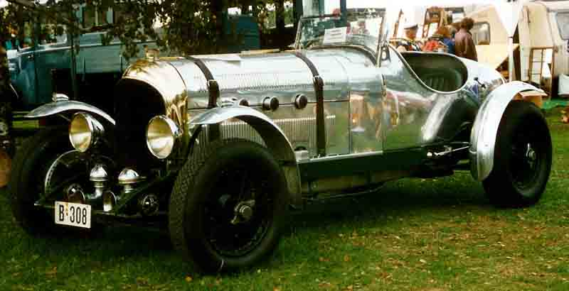 Bentley 3/8-Litre 2-Seater Sports